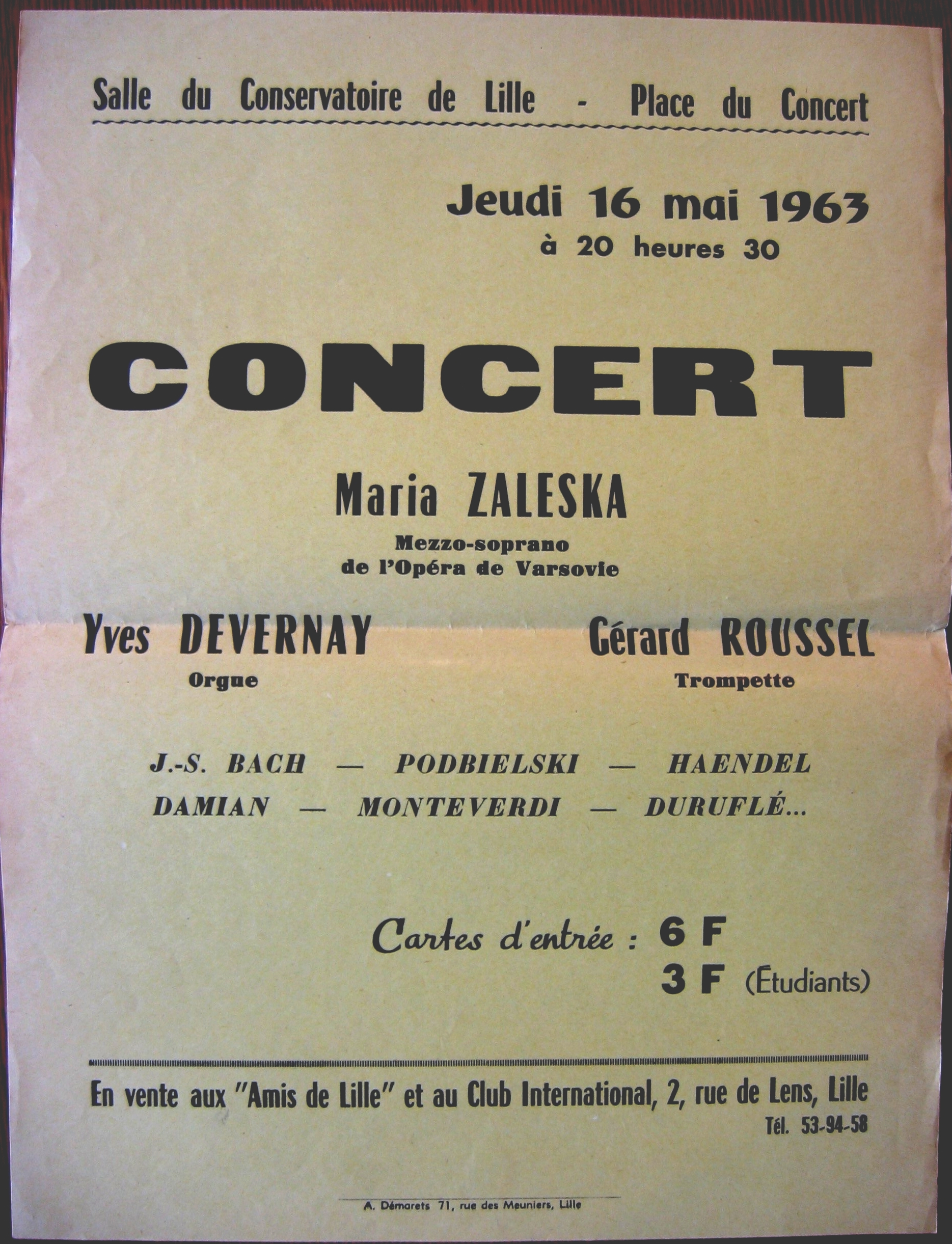 Poster for a concert organized with Yves Devernay help.